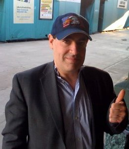 Jeff Boss, 2008, 2012, and 2016 presidential candidate, as taken by Kurt Gardiner of Hoboken Journal